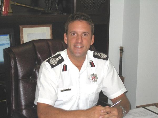 Jefe De Bomberos famoso Chris Gannon